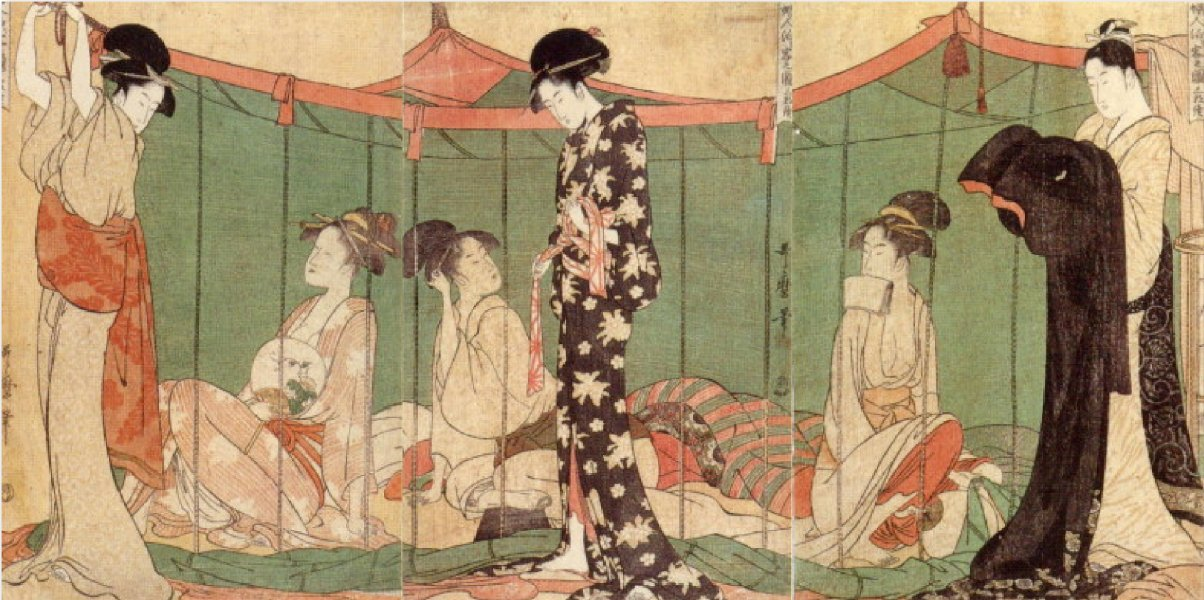 Kitagawa Utamaro: Omigaya «婦人泊客之図»